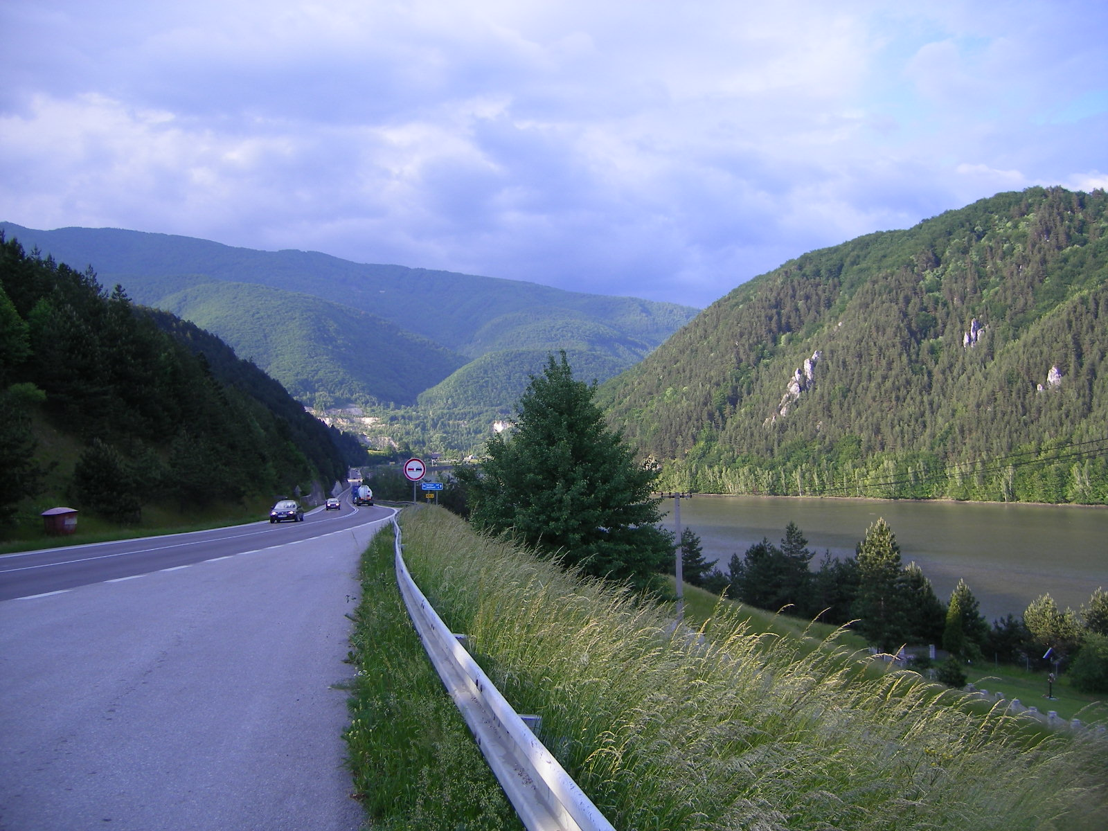 Ratkovo - highway 18